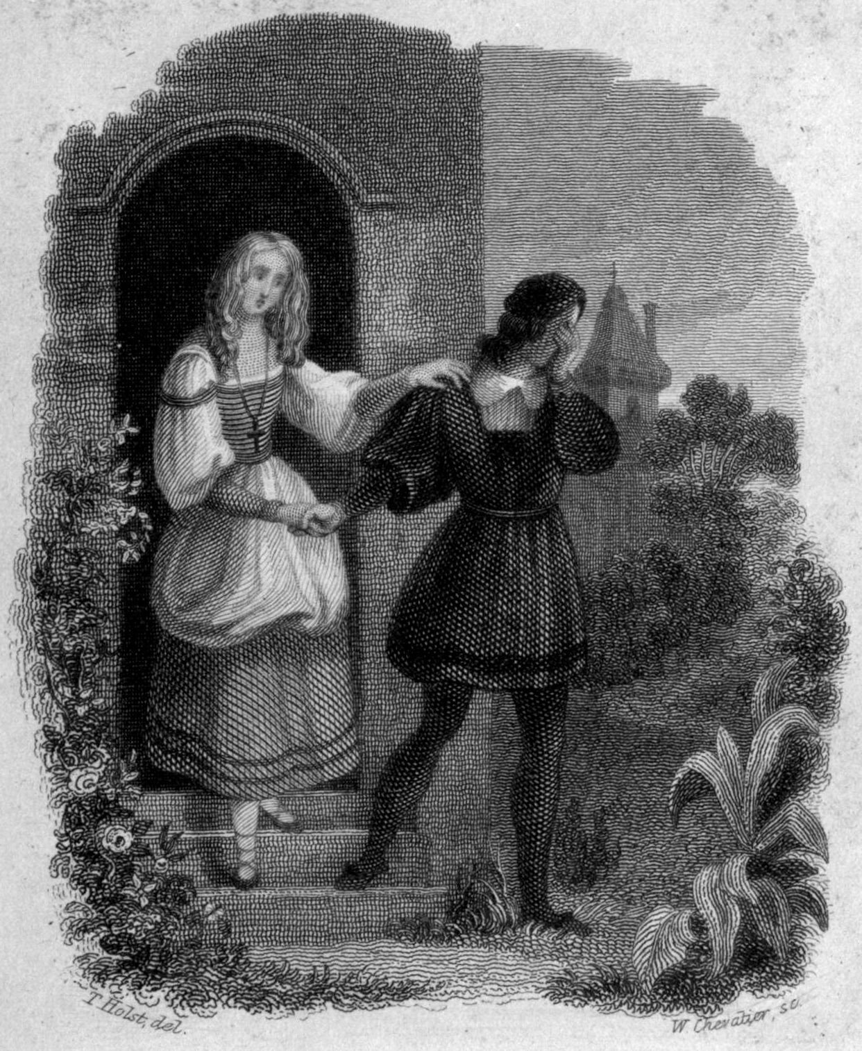 Frankenstein, or the Modern Prometheus (Revised Edition, 1831). "The day of my departure at length arrived"